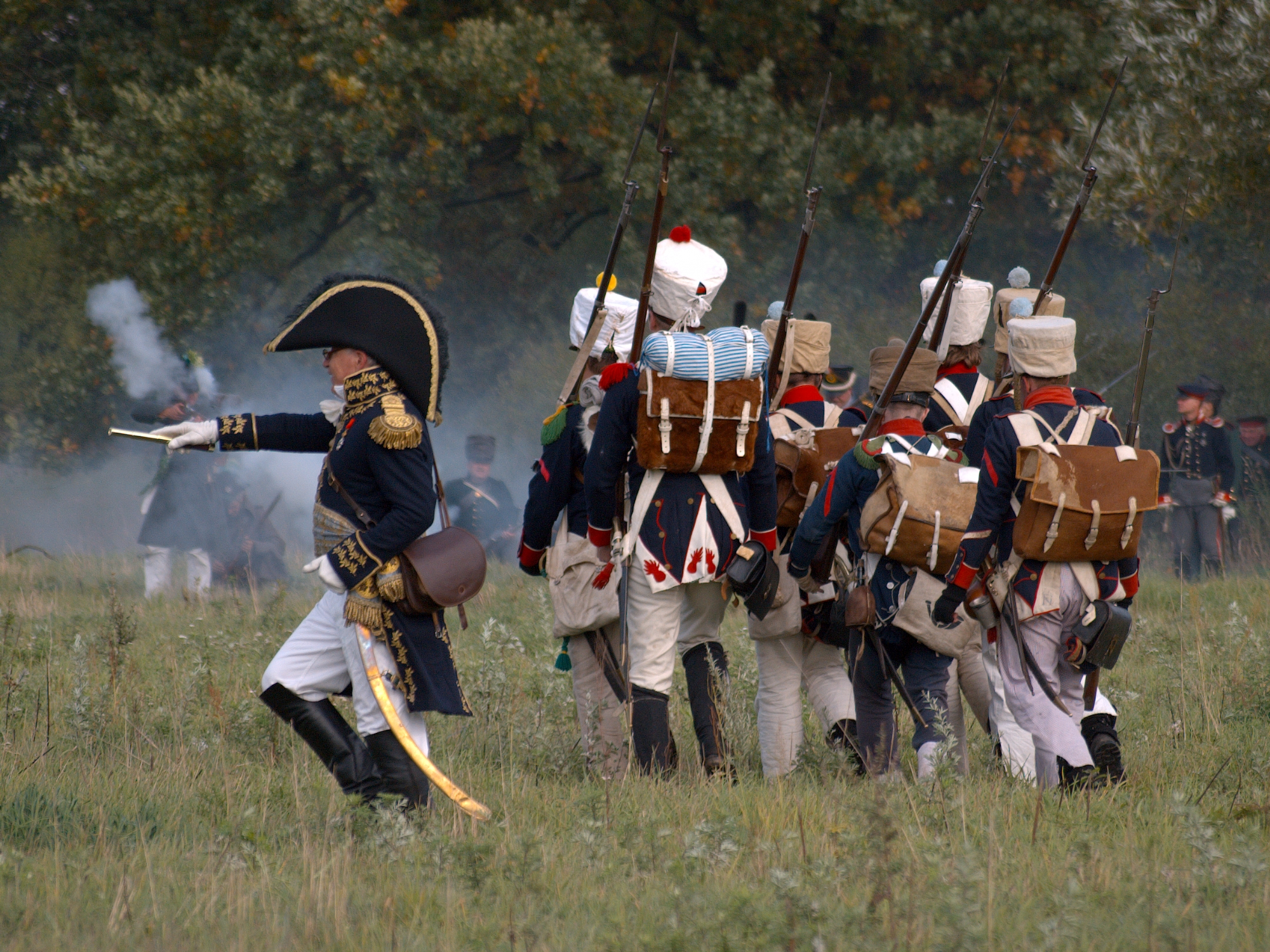 Taken at the 195 anniversary of the battle of Wartenburg. Re-Enactors from all over Europe gather every fifth year and fight in traditional uniform and weapons.